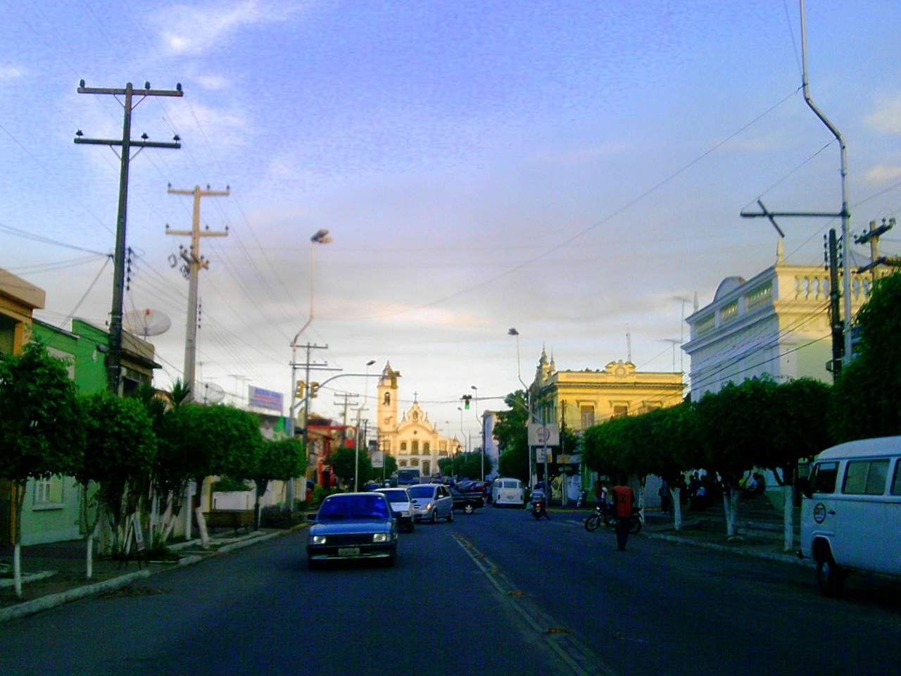 Goiana Downtown